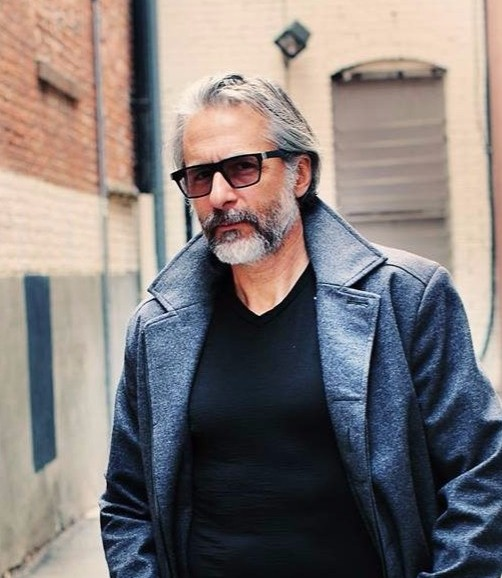 Fmr. Eagle County Commissioner Arn Menconi is the Green Party Candidate for US Senate of Colorado.